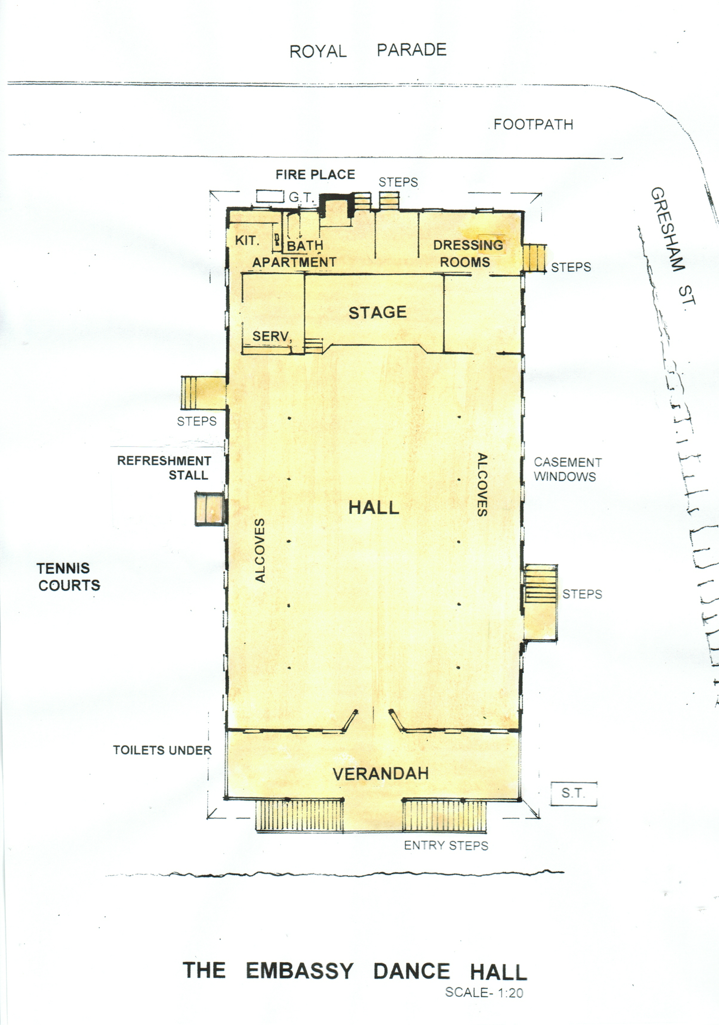 St Johns Wood Ashgrove Embassy Dance Hall. 1928.